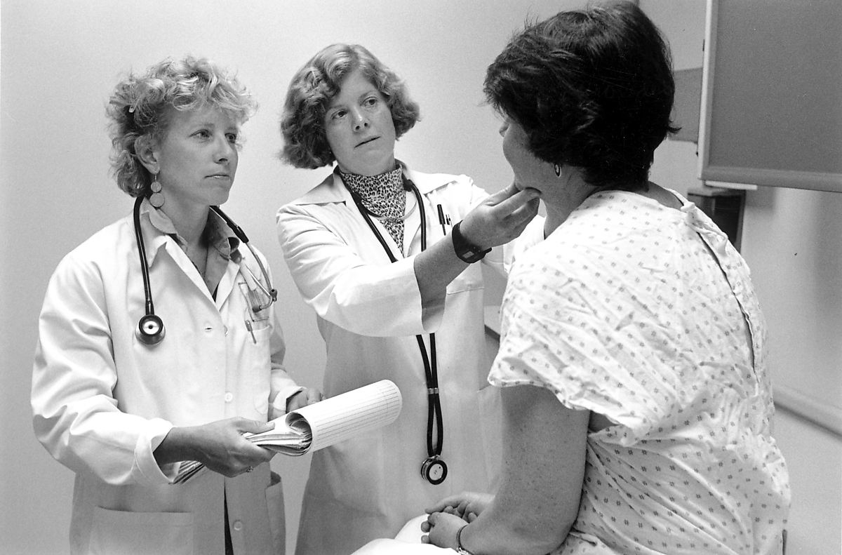 Item 100429, Fleets and Facilities Department Imagebank Collection (Record Series 0207-01), Seattle Municipal Archives.